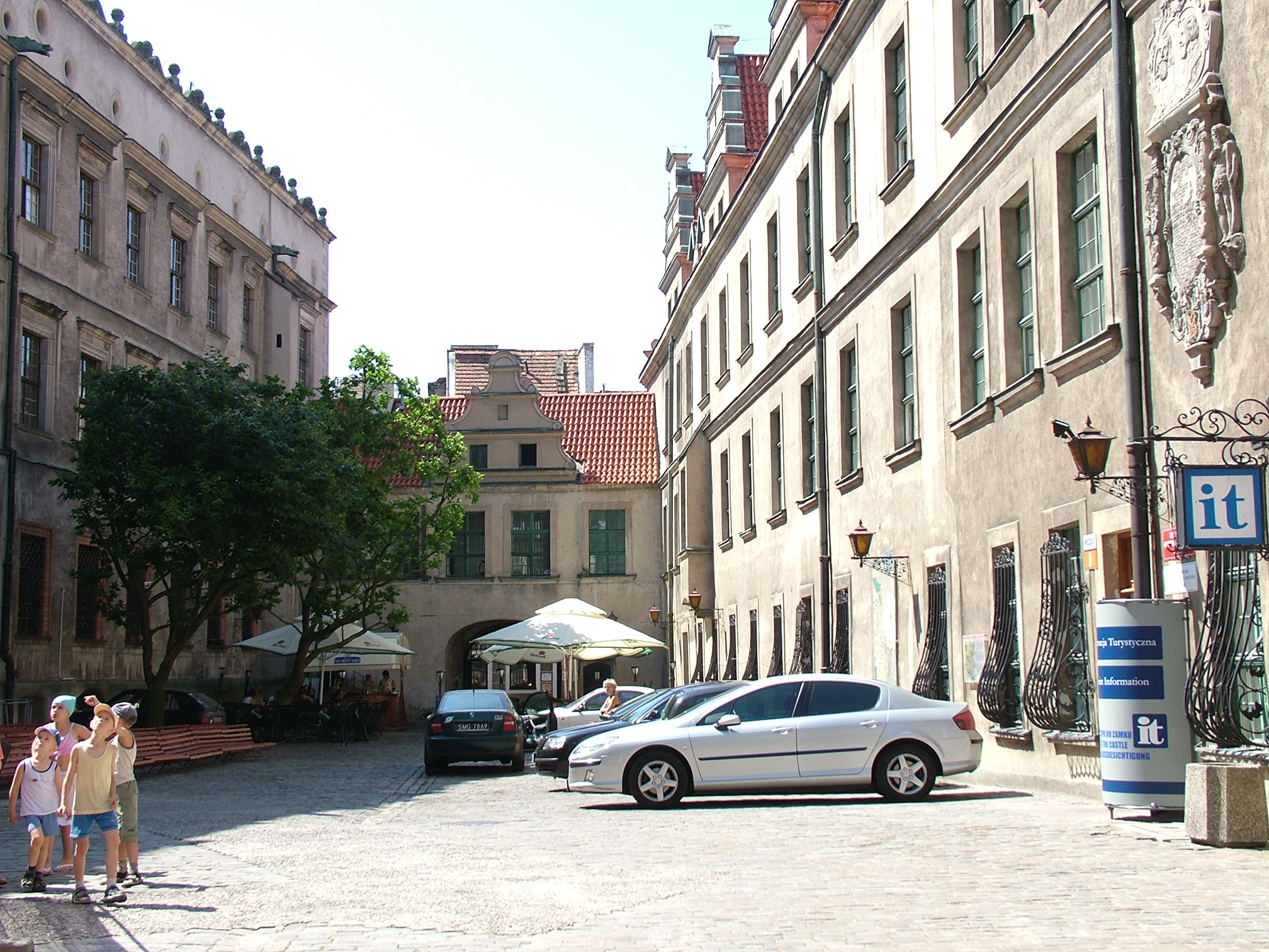 Little court in castle, Szczecin